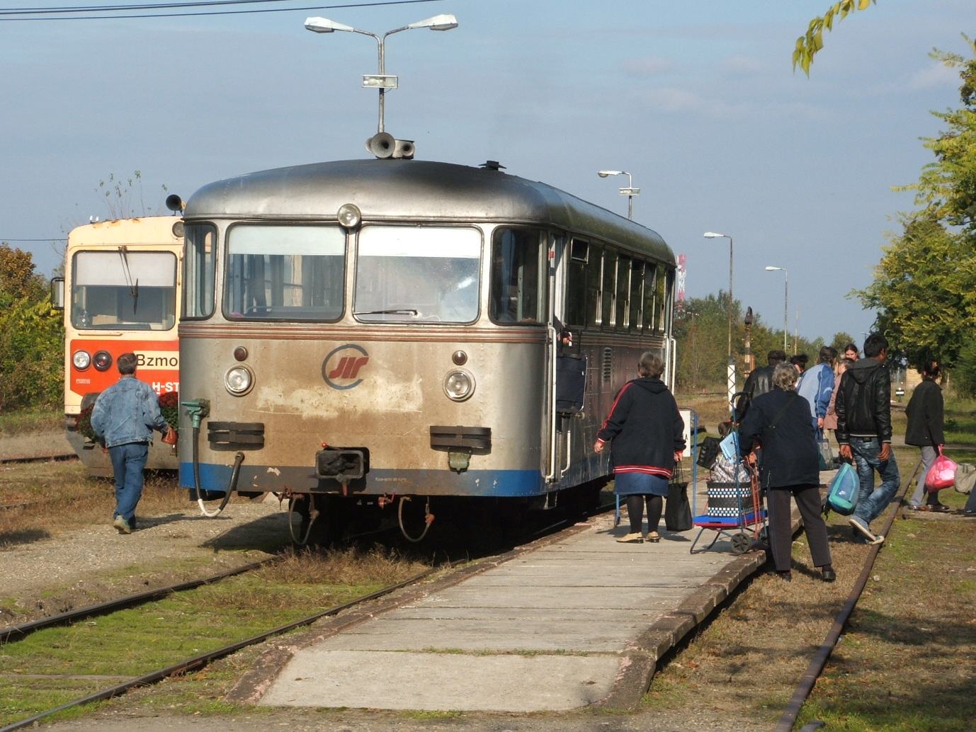 Railbus (there called "Sinobus") at Horgos station, Serbia